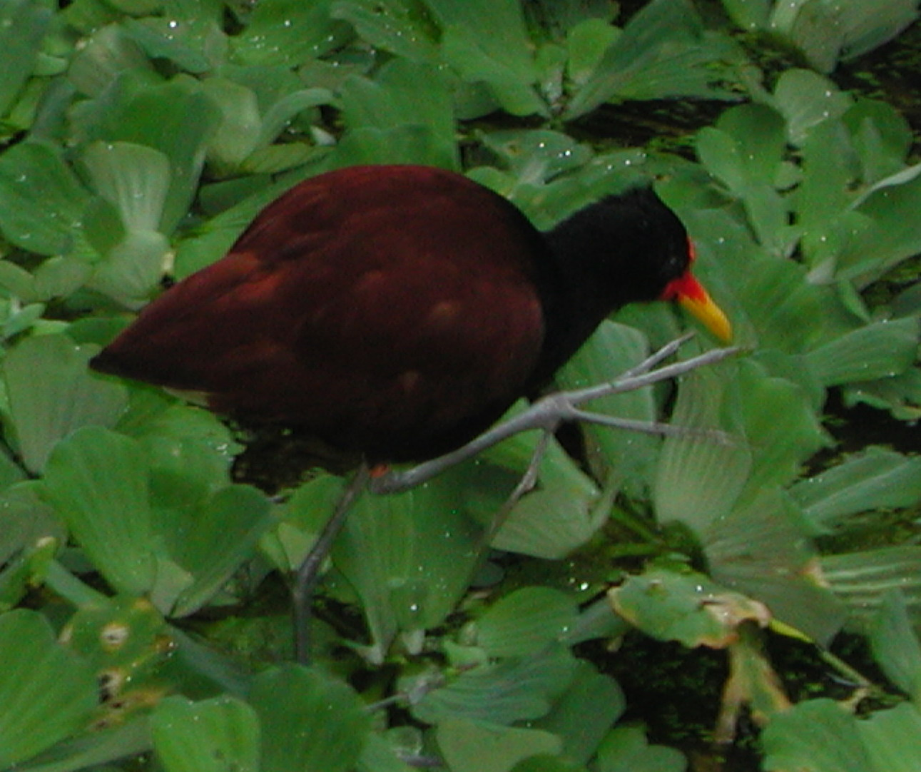 Rotstirn Jassana(Jacana jacana) Photo taken in the Tierpark Dählhölzli in Berne Source: photo uploaded by User:RicciSpeziari. Photographer: Riccardo Speziari